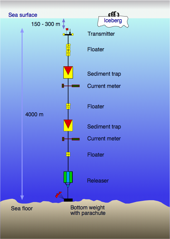 Schematic scetch of an oceanographic mooring, used by marine biologists, geologists and oceanographers to investigate the flux of sediment particles and organic matter to the ocean floor (sediment trap) and to measure direction and velocity of ocean currents (current meter). The mooring is anchored at the ocean floor by a weight which was lowered slowly with a parachute to avoid destruction of the mooring during its release. Floaters keep the wire in upright position. When the releaser is contacted with a signal after a year (or more), it opens up the connection between weight and mooring and the drifters will bring up the mooring to the surface where it is recovered by the ship.